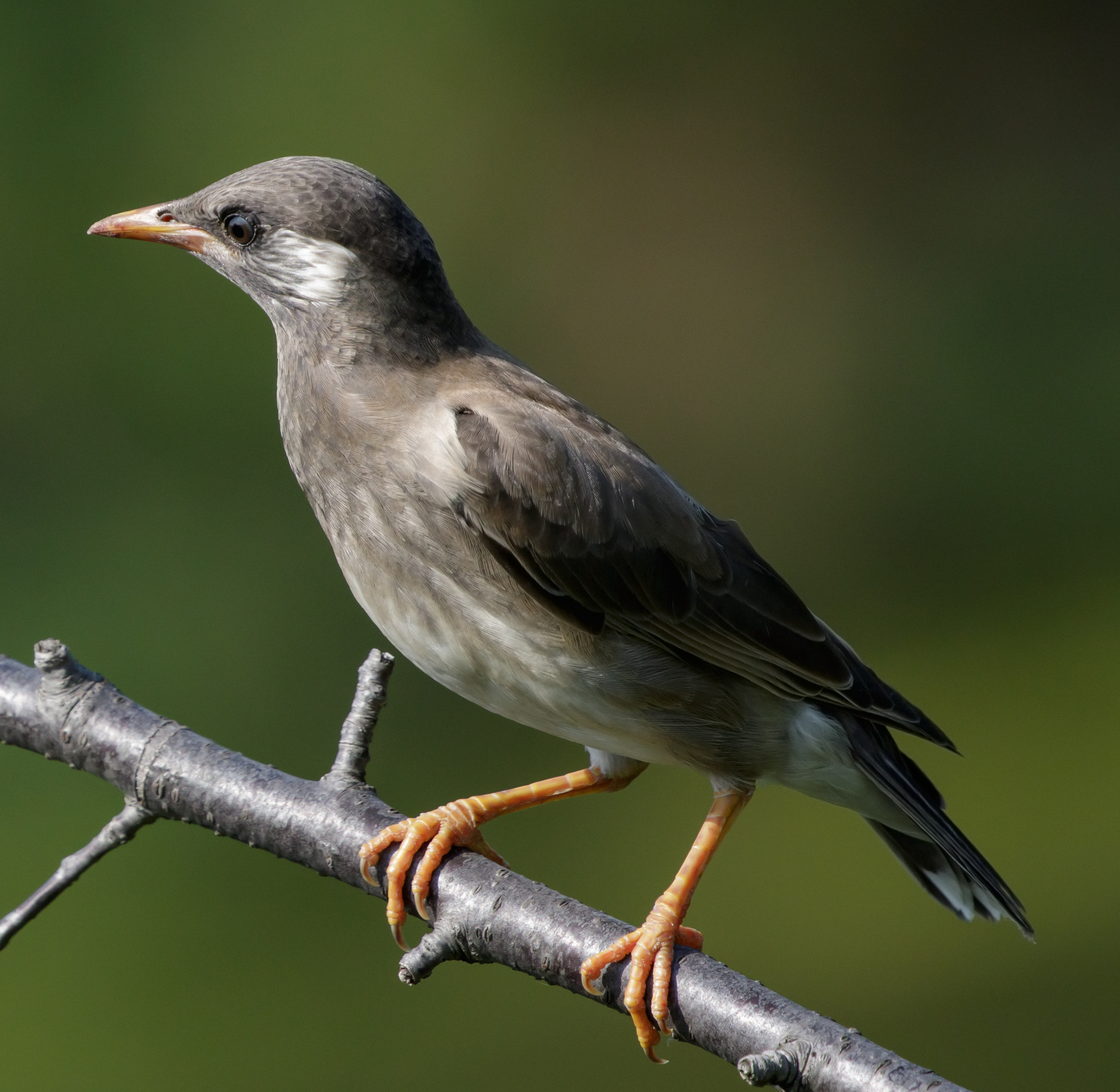 White-cheeked Starling at Tennōji Park in Osaka.